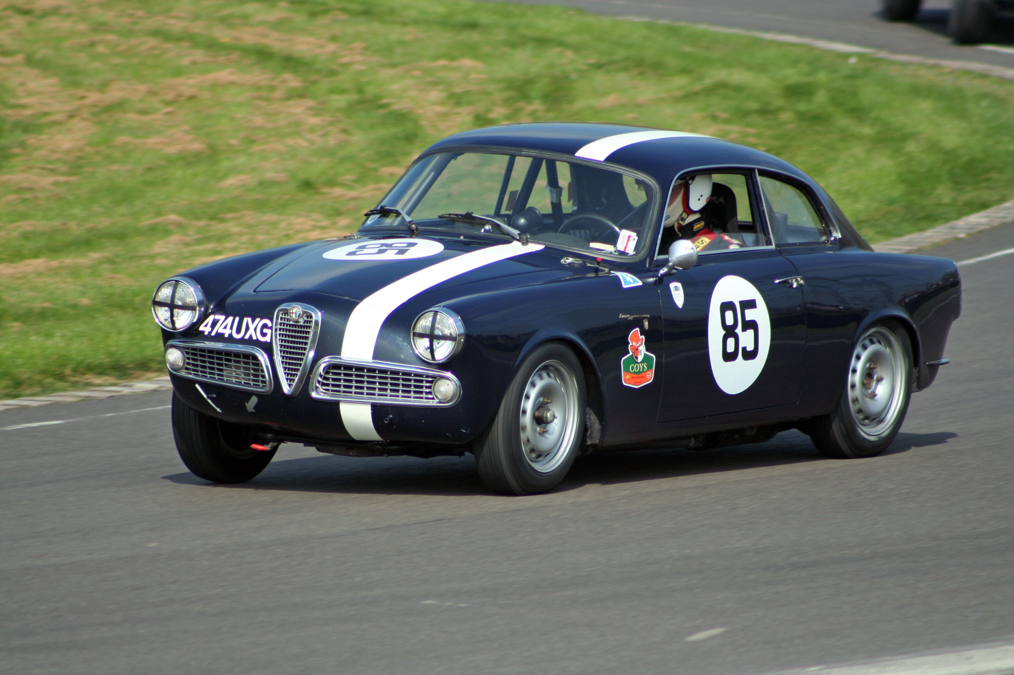 Retro Race day Castle Combe 9th April 2007